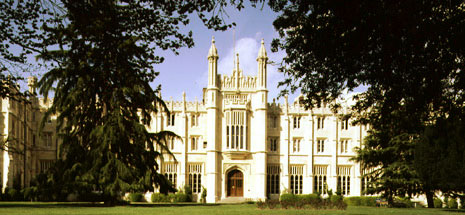 Richmond American University in London, main campus, Richmond Hill, 2001